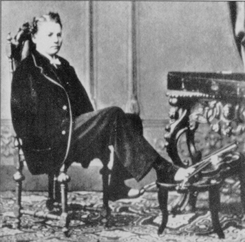 from en.wiki: Drimmer, F. Very Special People: The Struggles, Loves and Triumphs of Human Oddities (Revised Edition), Citadel Press, 1991. ISBN 0806512539